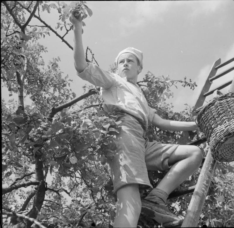 Boy Scouts Pick Fruit For Jam- Life on a Fruit-picking Camp Near Cambridge, England, UK, 1943 A Boy Scout stands at the top of a ladder to pick plums from a tree at a fruit-picking camp near Cambridge. He is wearing a handkerchief on his head to protect him from the summer sun as he reaches for the topmost branch.